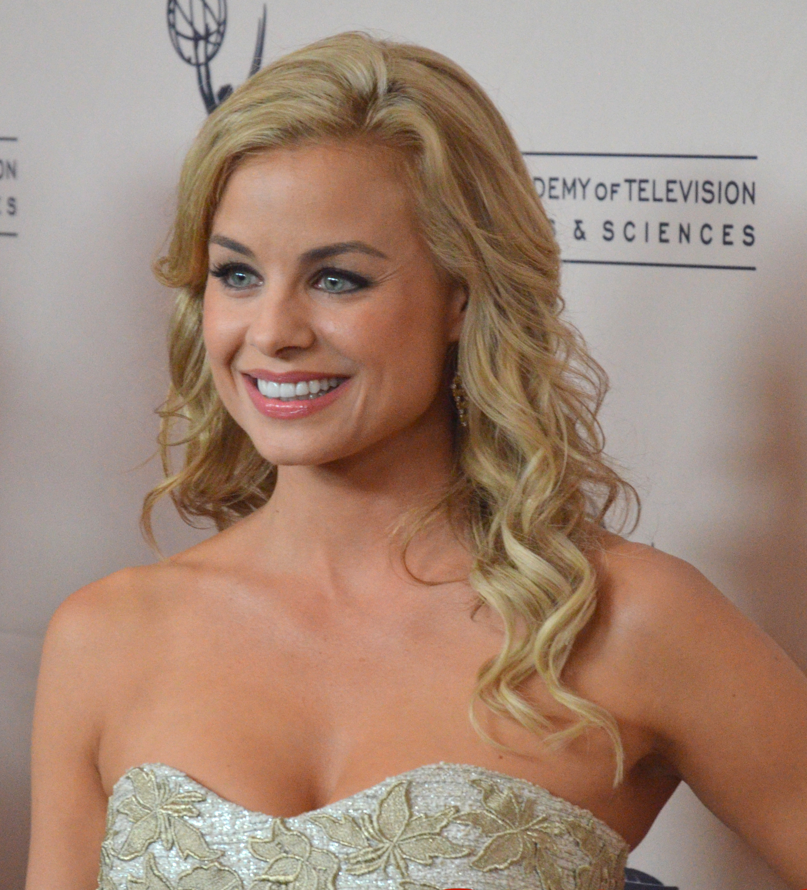 Daytime Emmys - Jessica Collins Mingle Media TV’s Red Carpet Report coverage, please visit our website and follow us on Twitter and Facebook here